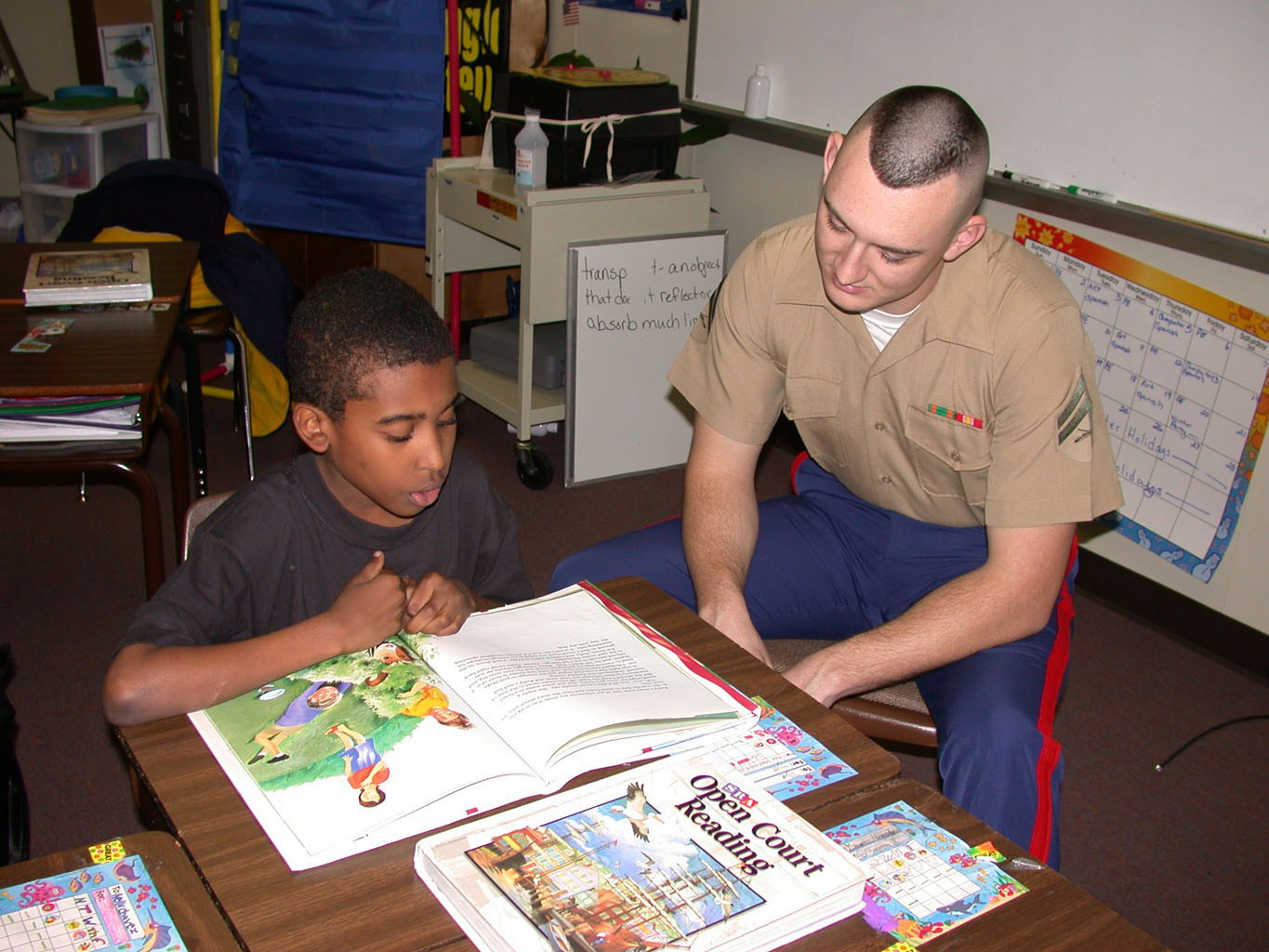 Park Street Elementary School, Atlanta, Ga. (Dec. 11, 2002) -- A U.S. Marine helps a student with reading comprehension as part of a Partnership in Education program sponsored by Park Street Elementary School and Navy /Marine Corps Reserve Center Atlanta. Partnership in Education is a community out-reach program for sailors and Marines to visit the school and help students with class work. U.S. Navy photo by Journalist 1st Class Linda Hunter. (RELEASED)